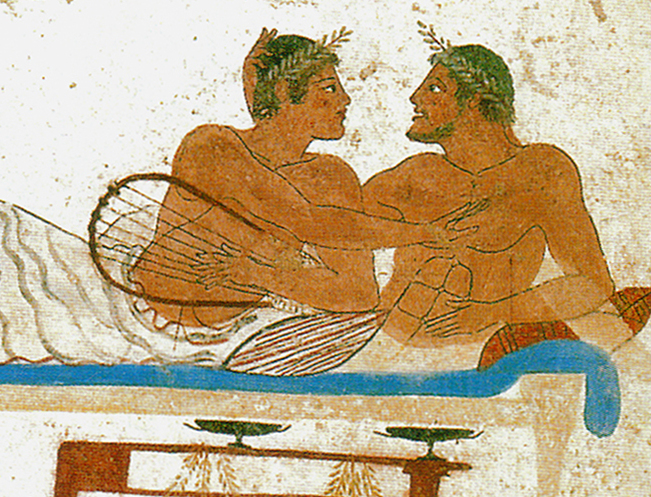 Detail of a Fresco from the North wall of the Tomb of the Diver in Paestum, Italy.